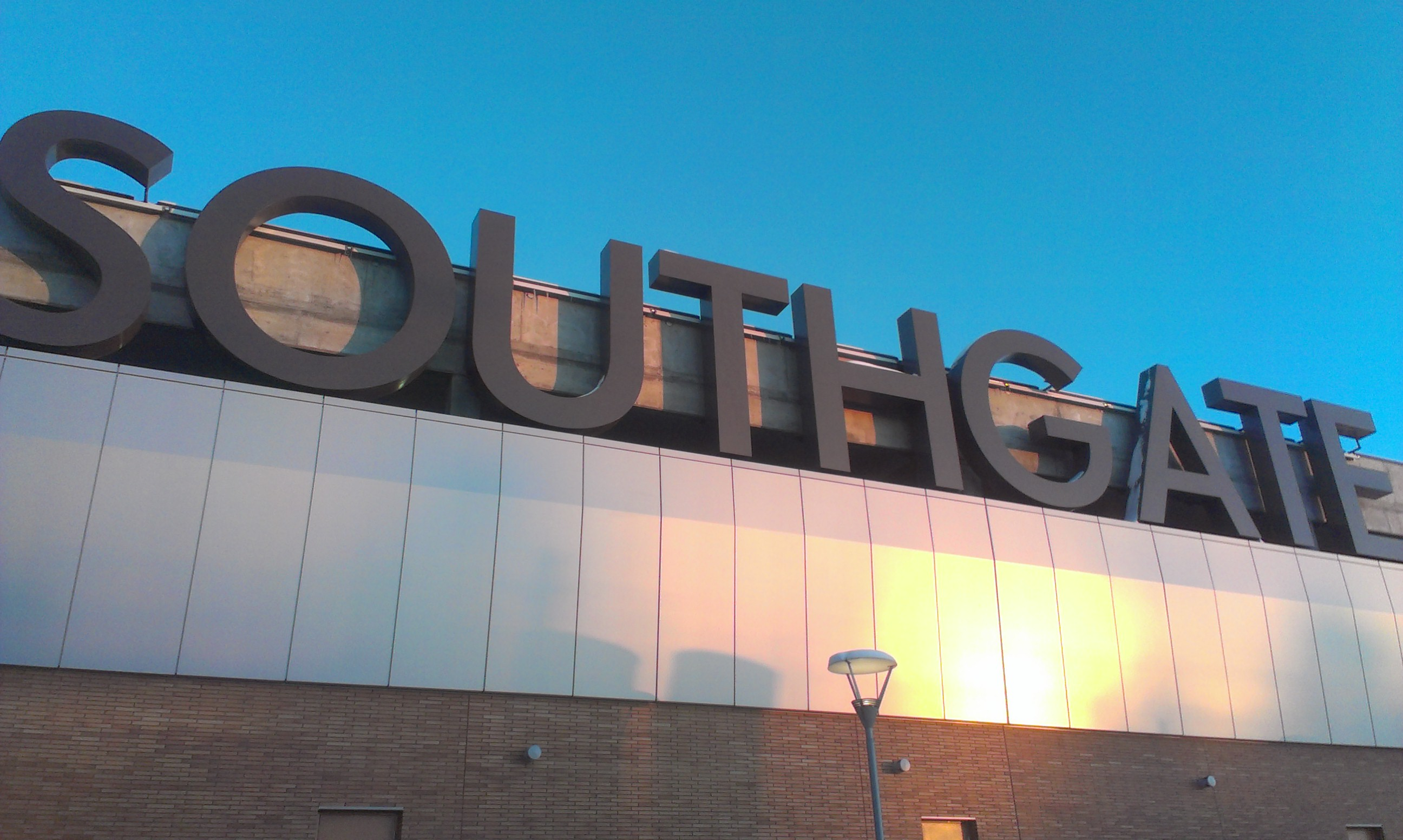 The sign marking the entrance for the Southgate Centre shopping mall in Edmonton, Alberta.